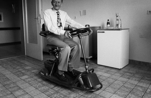 Resident of a nursing home in Munich (Germany)